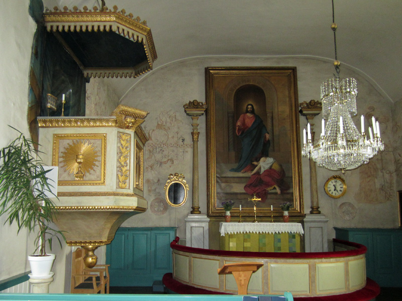 Interor Eckerö church, Åland, Finland